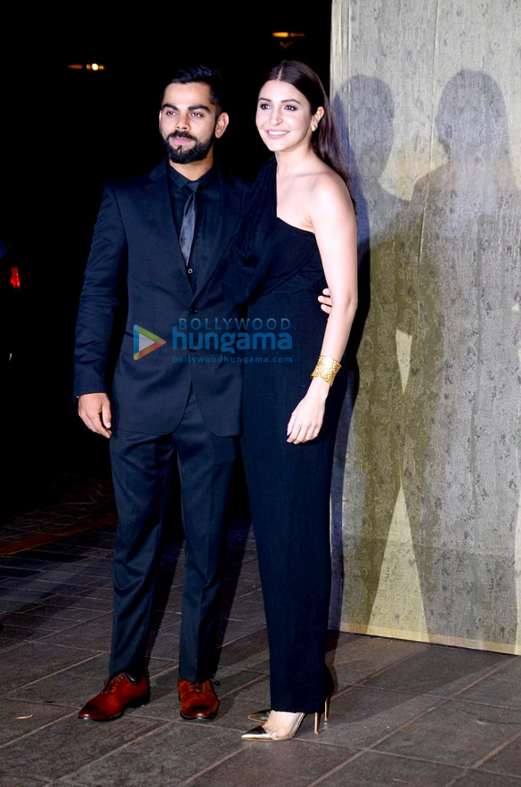 Manish Malhotra’s 50th birthday bash